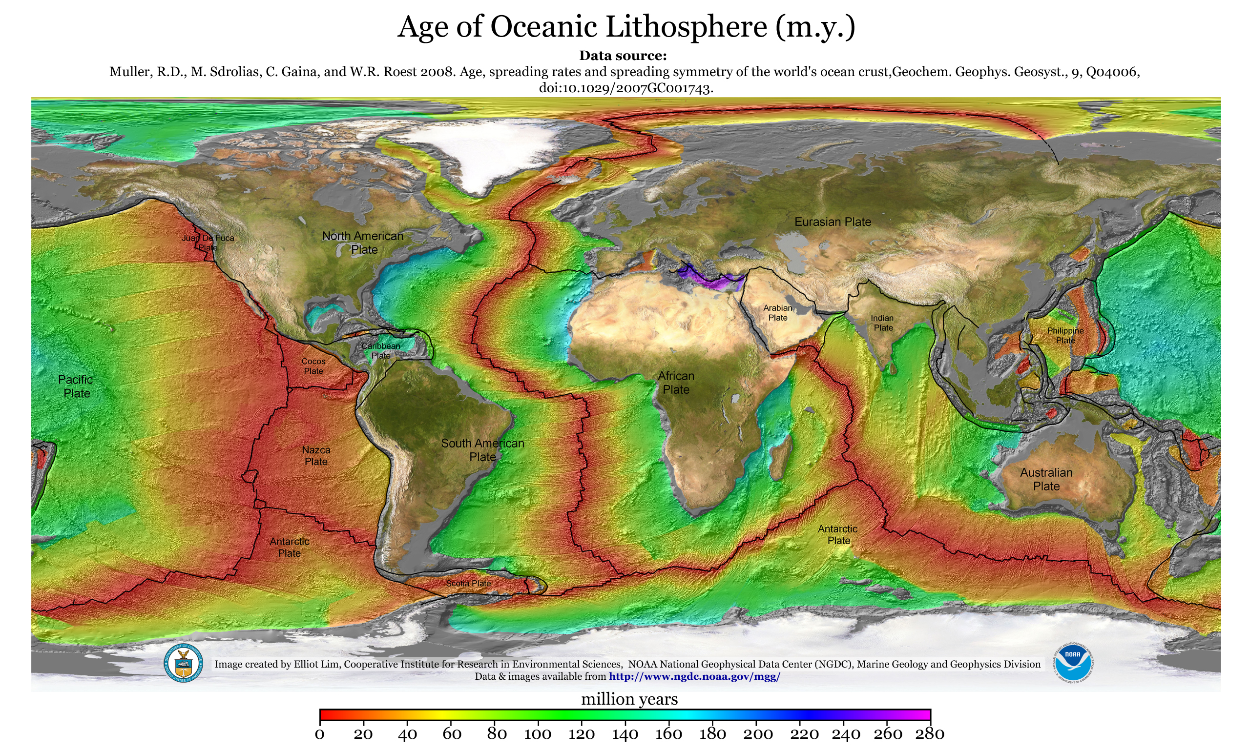 Colors indicate age of oceanic lithosphere, lines represent tectonic plates, world map.